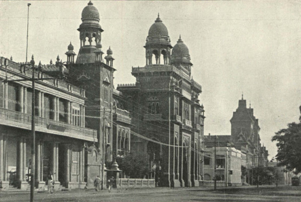 This fine building is situated on First Line Beach.